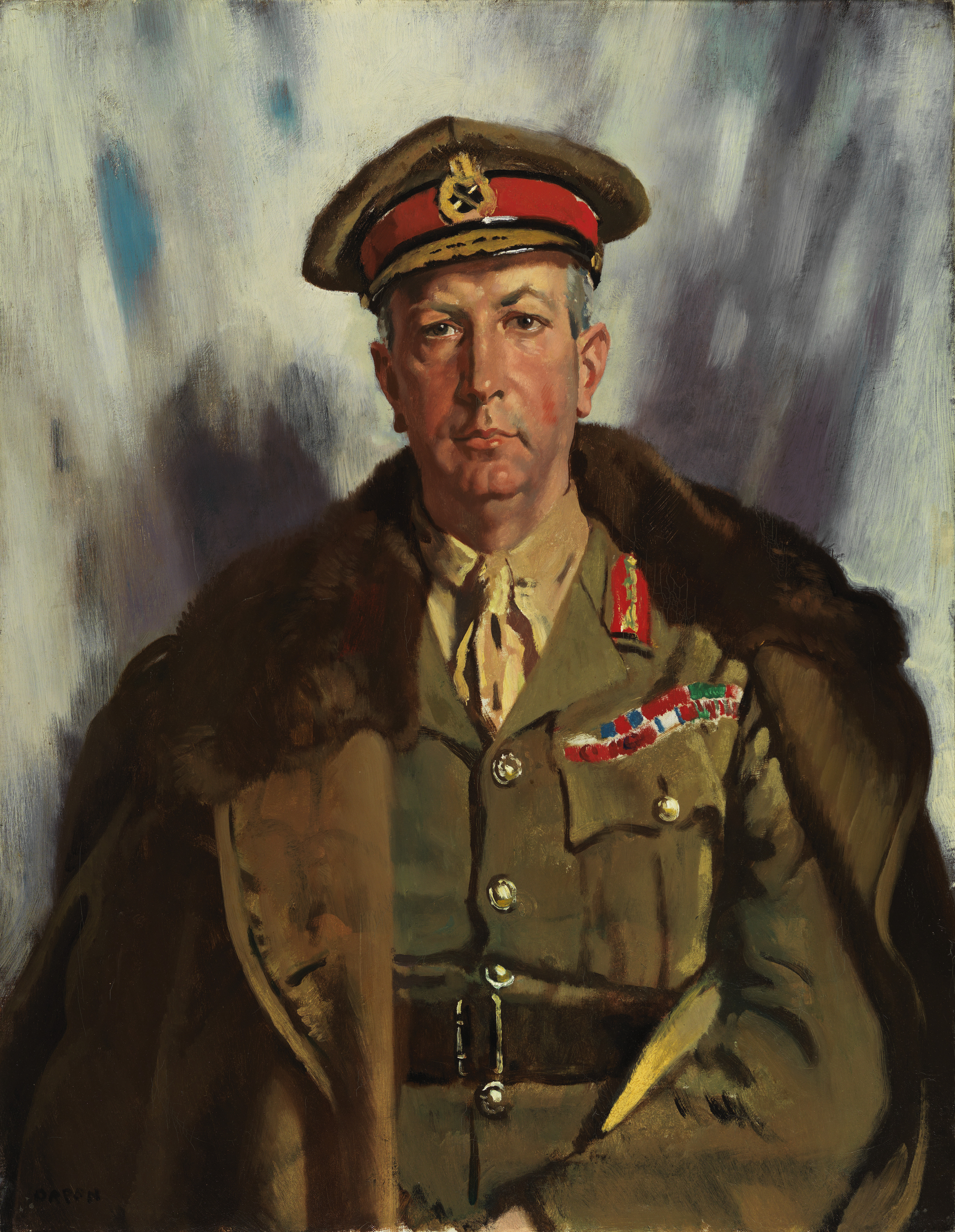 Depicted person: Arthur Currie